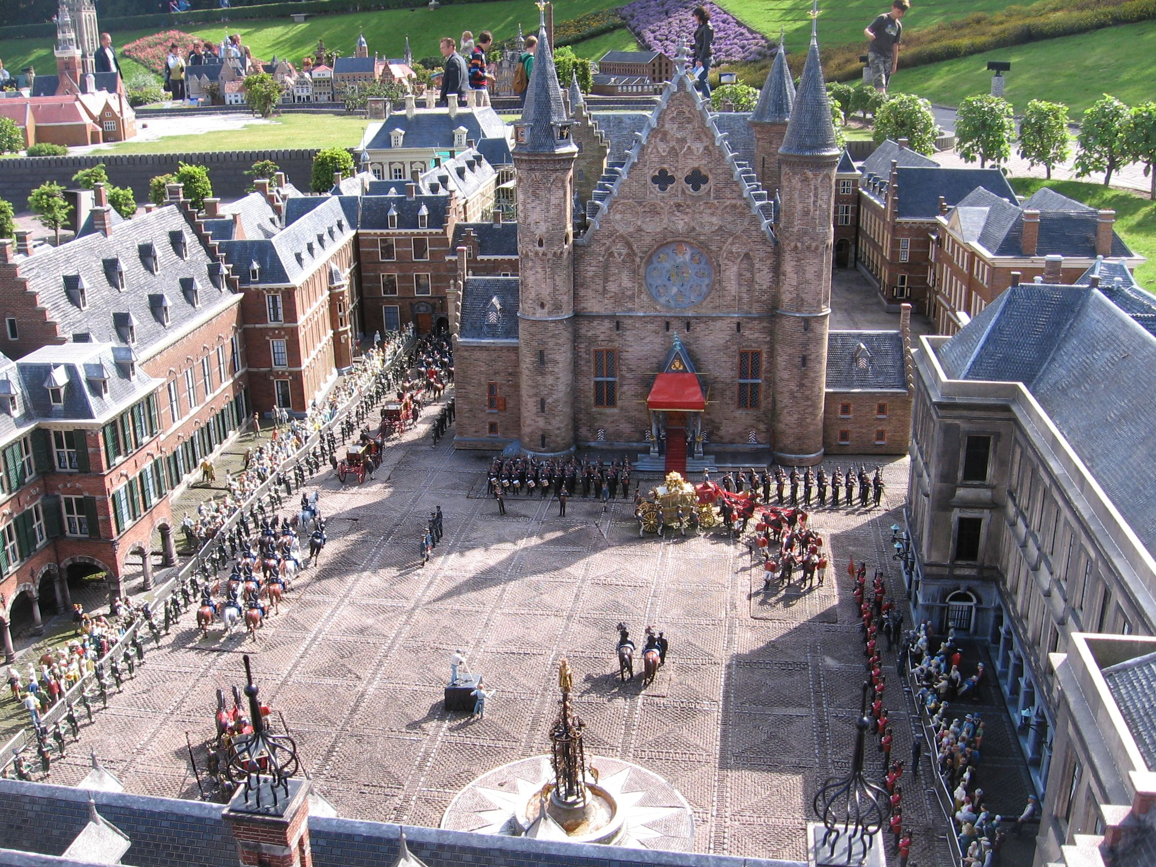 Madurodam miniature city in the Netherlands - model of the Hague Binnenhof.